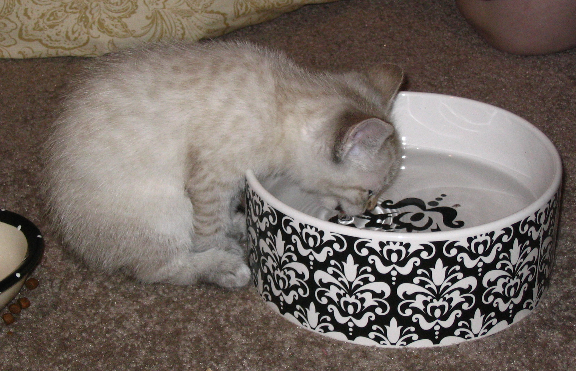 A tan kitten with darker points and some tabby markings drinking from a black-and-white water dish. Taken from the side. Ripples are visible on the water.